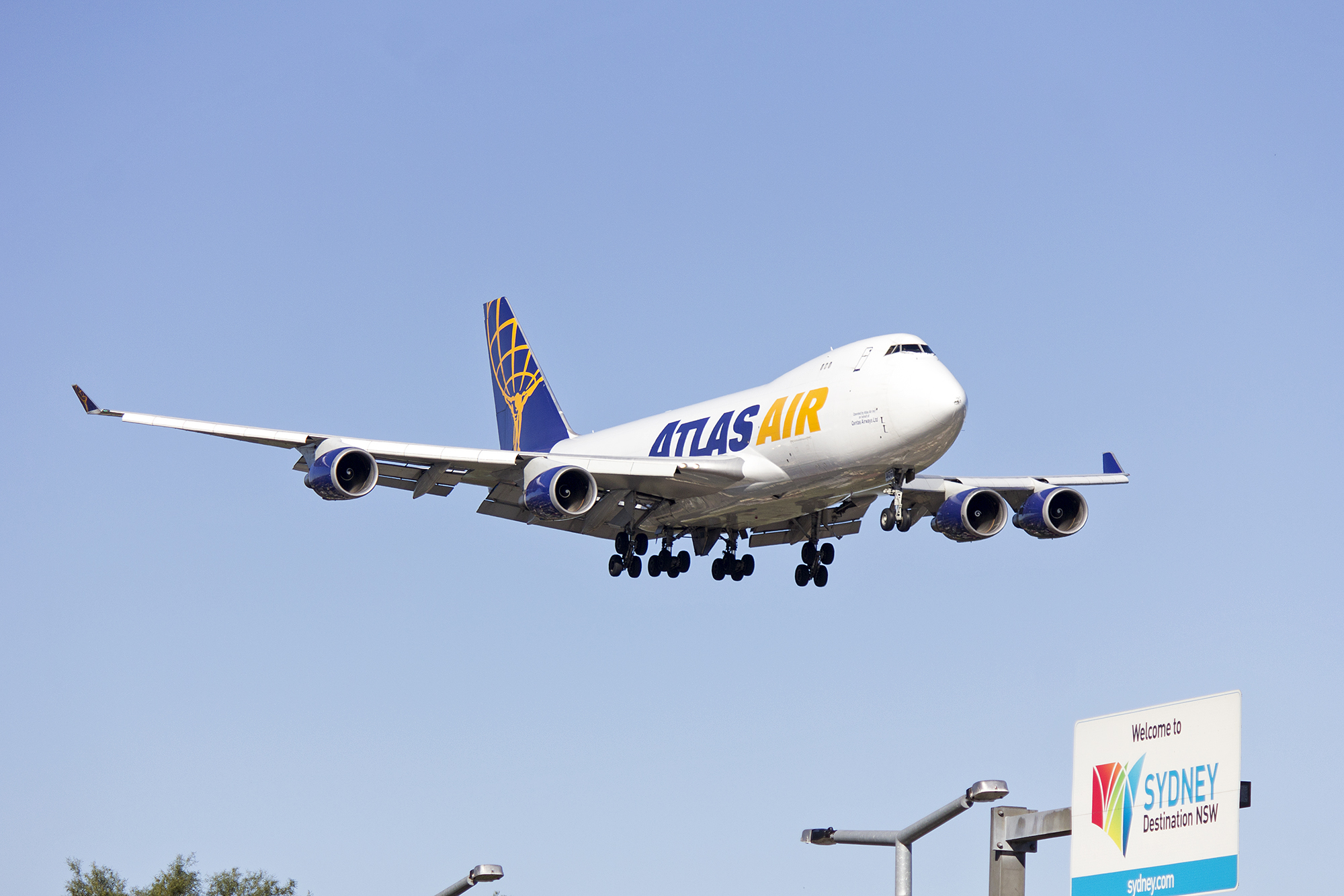 Atlas Air (N409MC) Boeing 747-47UF on approach to runway 25 at Sydney Airport.